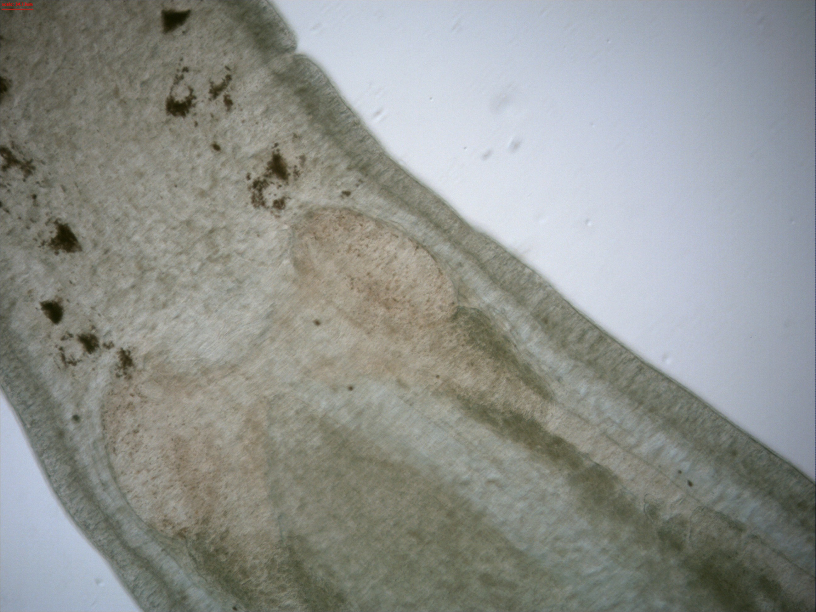 Microphotogaph of Amphiporus ochraceus (Nemertea: Enopla: Hoplonemertea). Brain and neural cords shown.